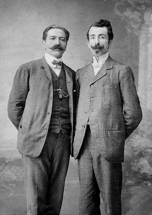 Andranik Ozanian and Rupen Zartarian, Gray